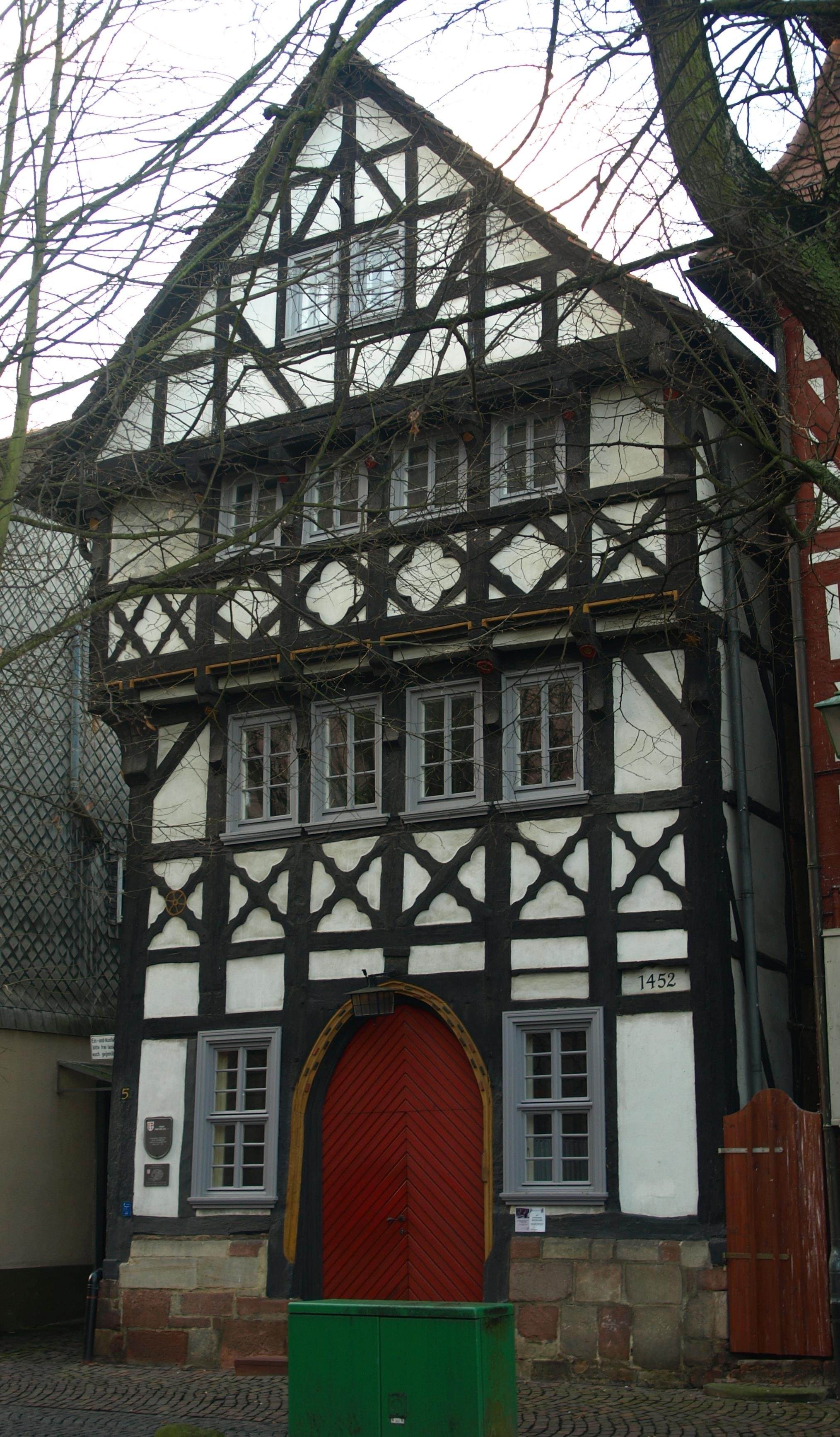 oldest half-timbered building in Bad Hersfeld, from 1452